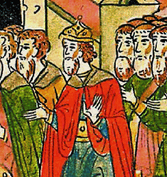 Andreas Palaiologos, claimant Byzantine Emperor in the late 15th century, depicted in a contemporary Russian chronicle.